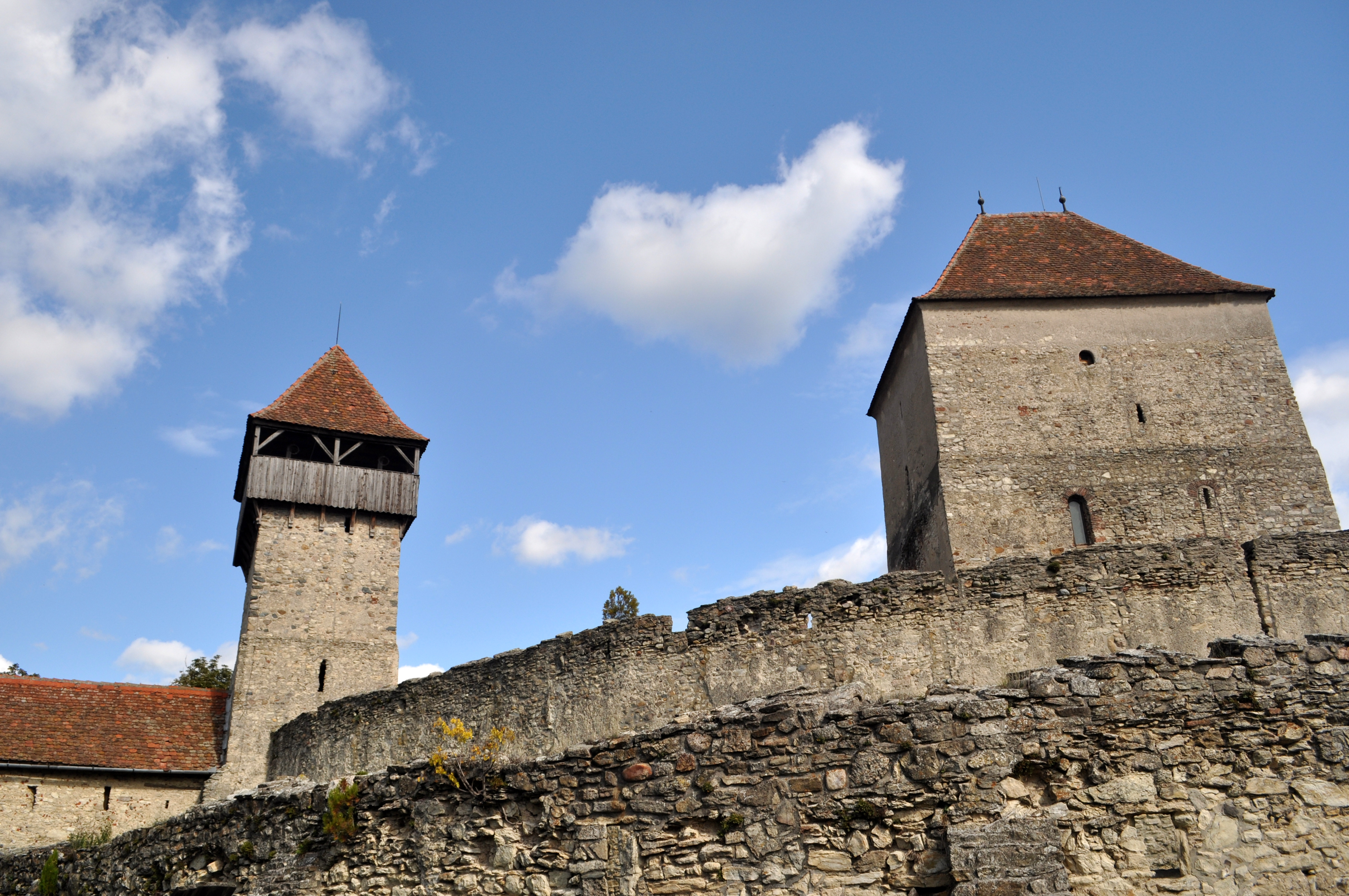 Calnic Castle 2013